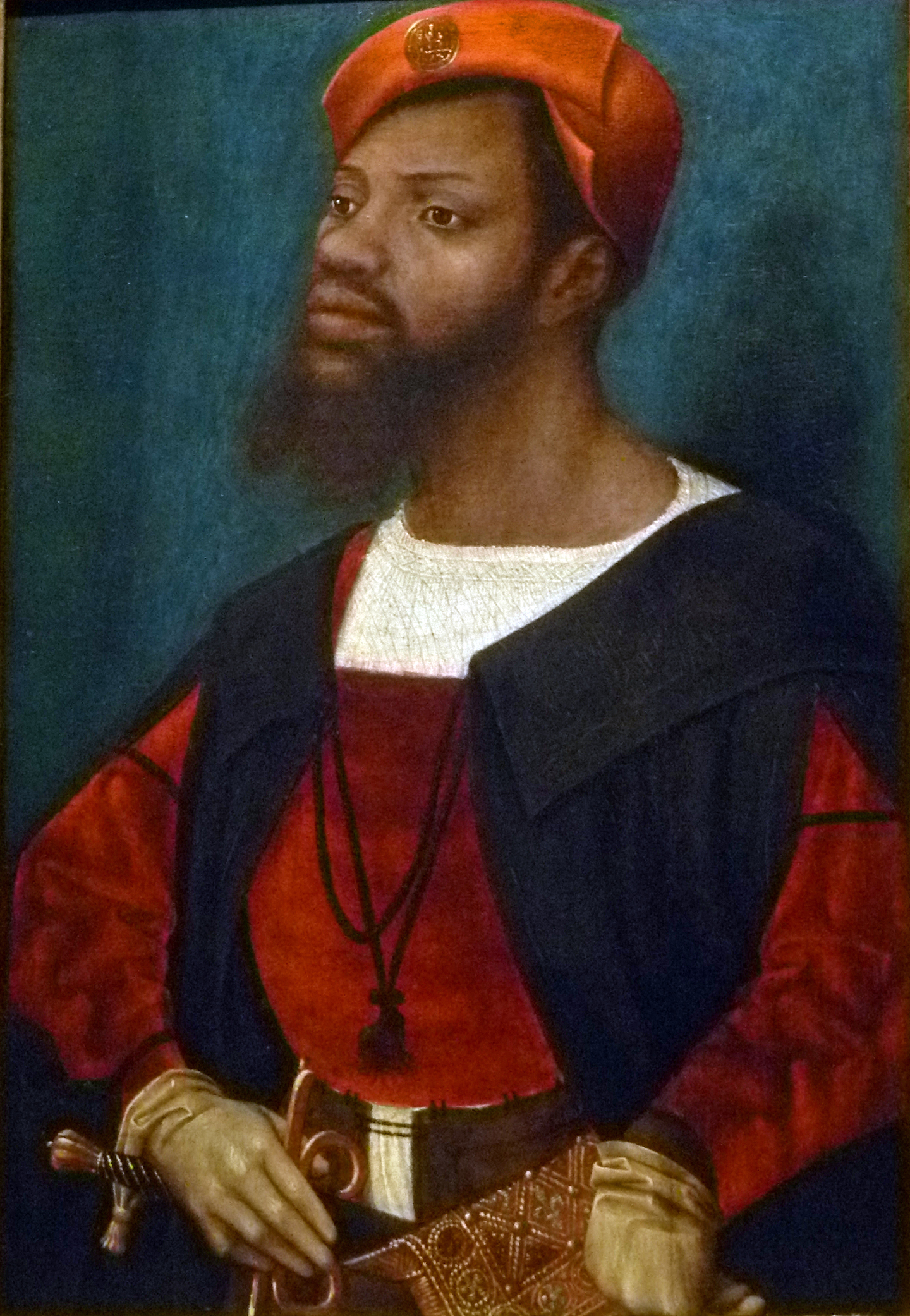 Possibly portrait of Christophle le More (Christopher the Moor), only known portrait of a black man in early European painting. This may be the portrait of the black archer at the court of Emperor Charles V